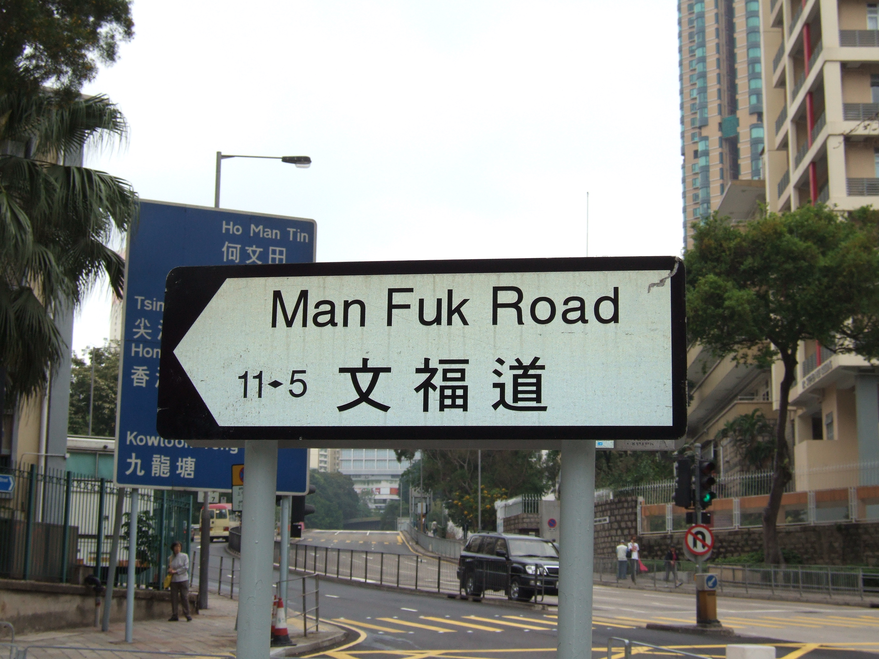 Road sign of Man Fuk Road, Ho Man Tin, Kowloon